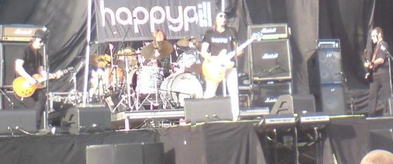 Happypill